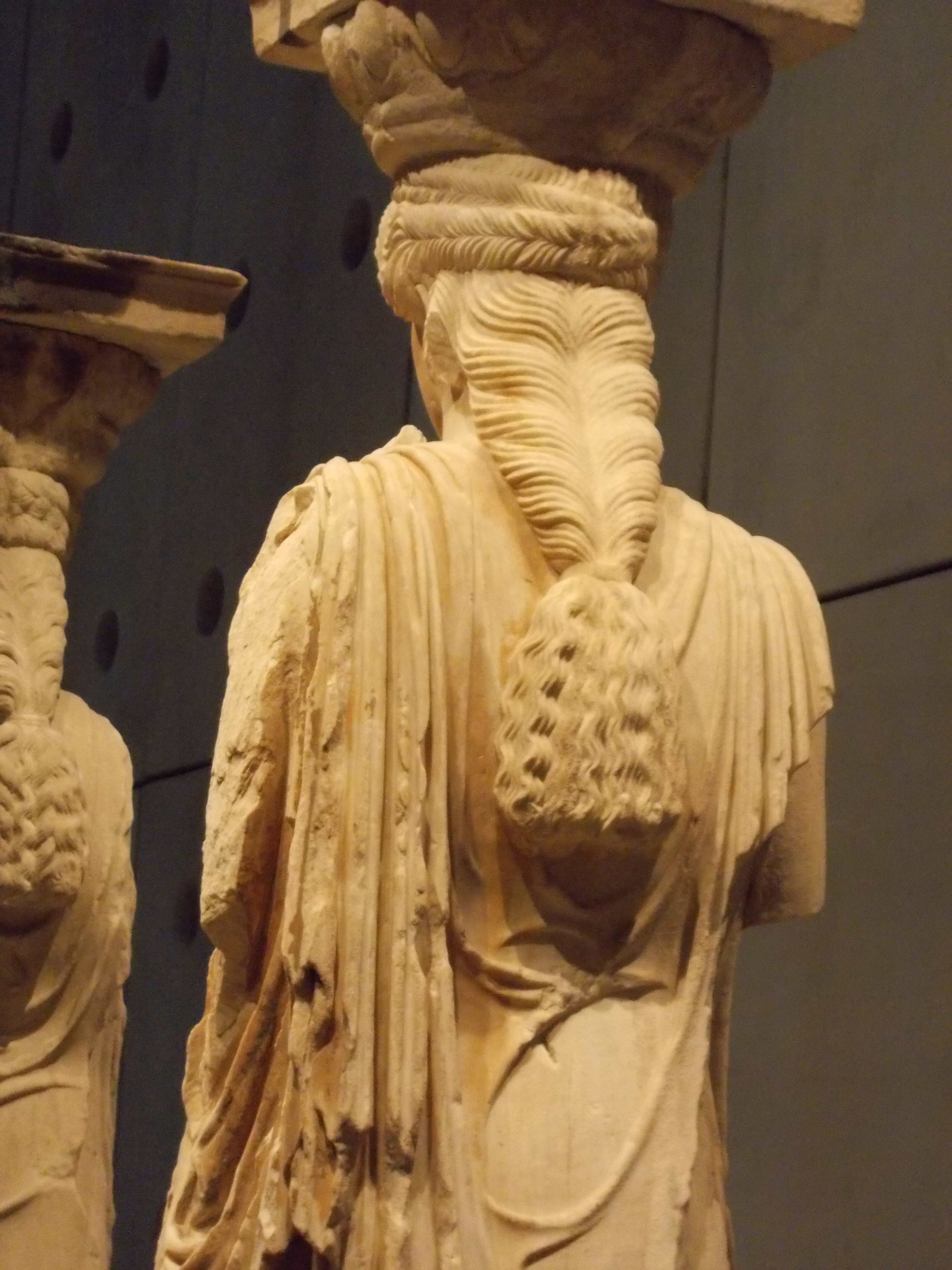 Caryatid